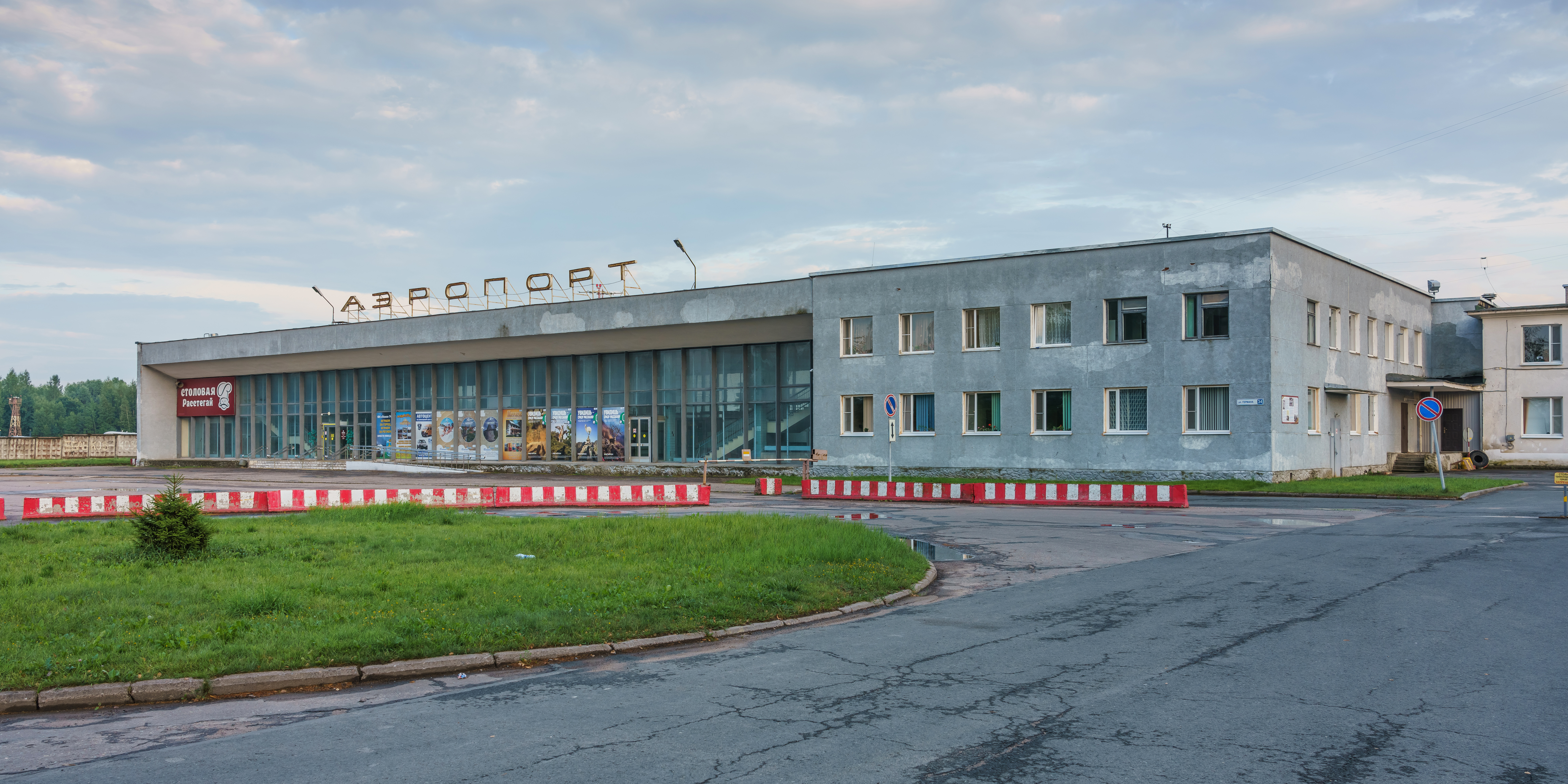 Terminal of the airport in Pskov, Russia